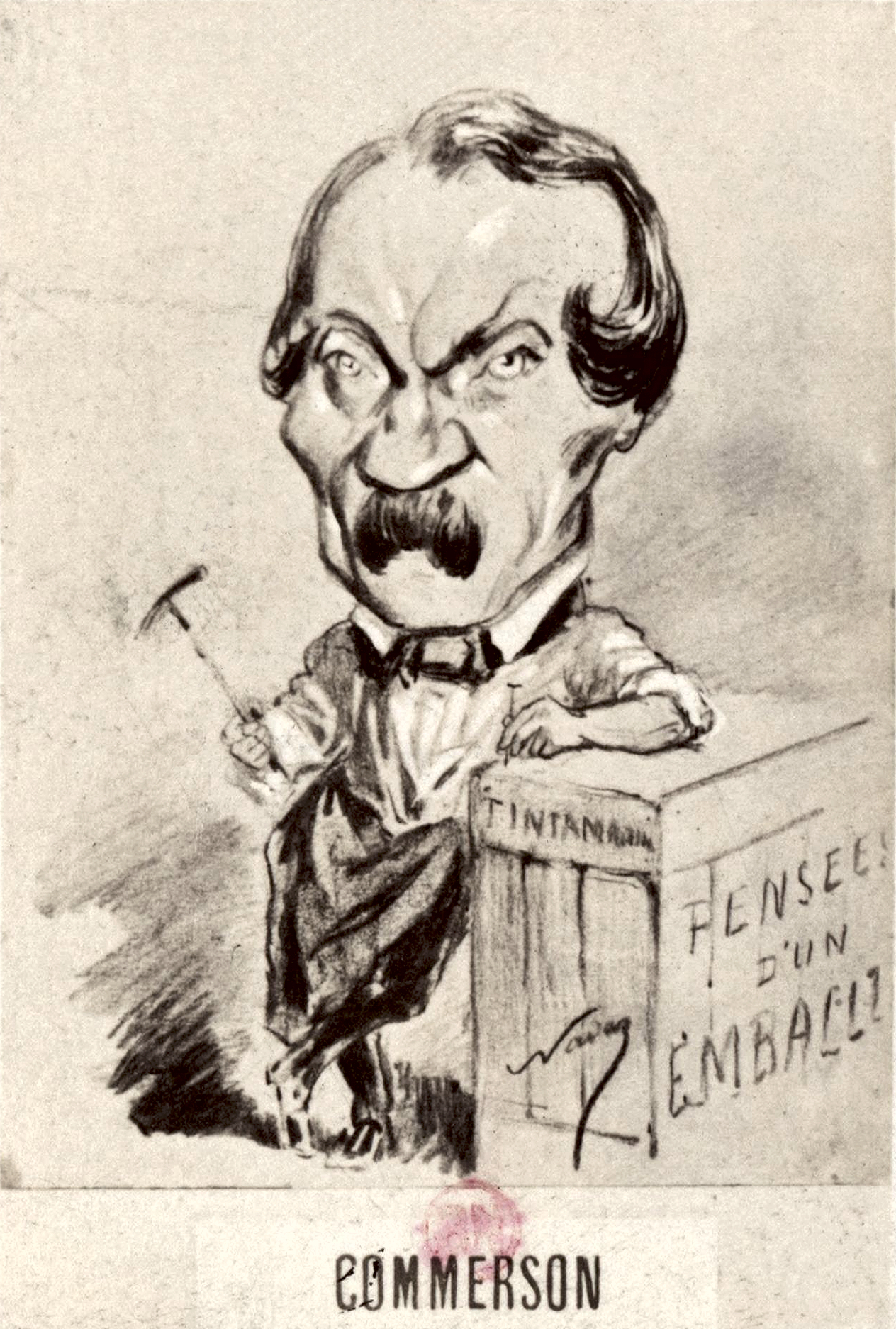 Caricature of Jean-Louis-Auguste Commerson (1802–1879) mentioning his newspaper Le Tintamarre and his book Pensées d’un emballeur.